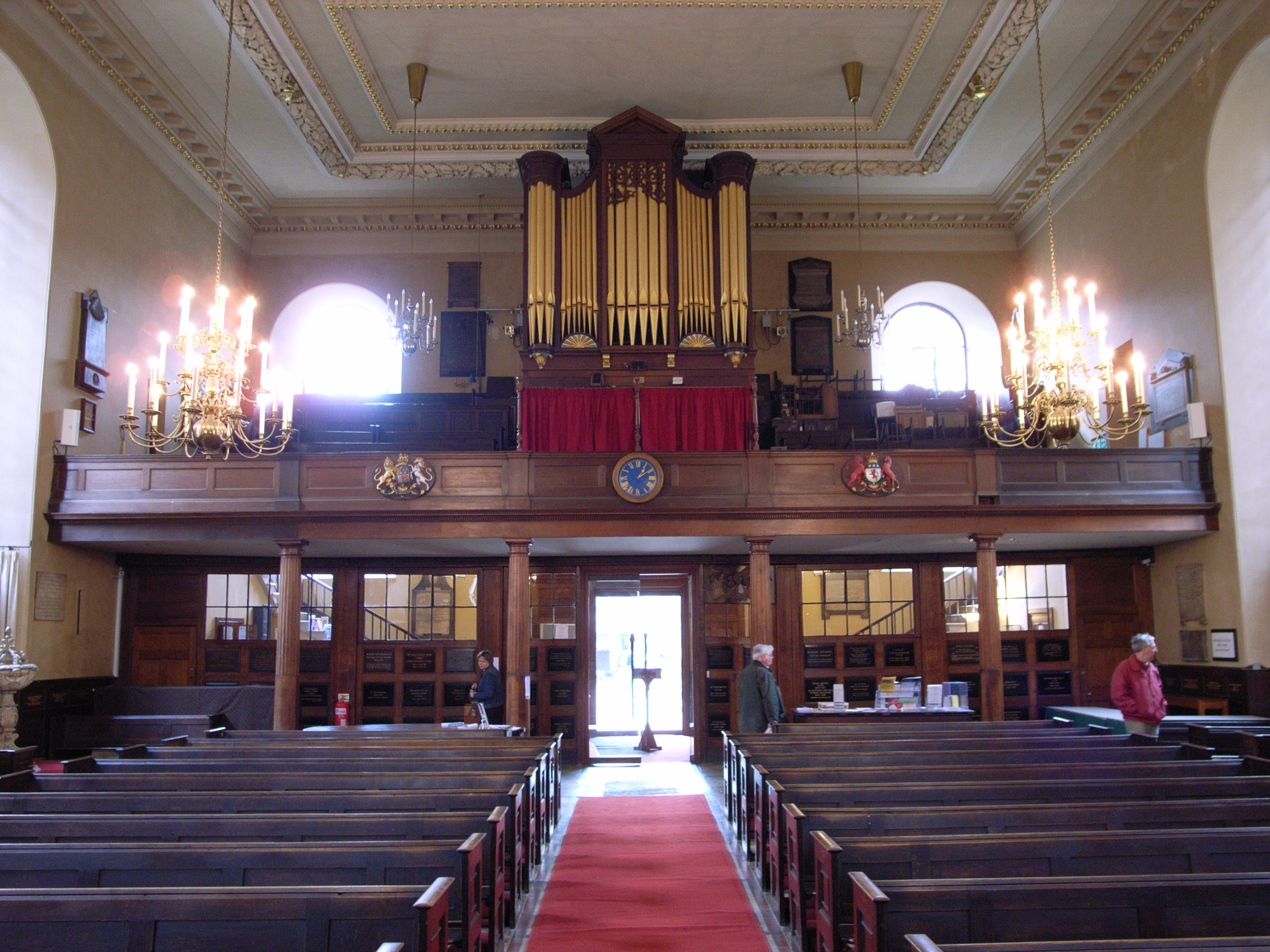 Interior, St Paul, Covent Garden